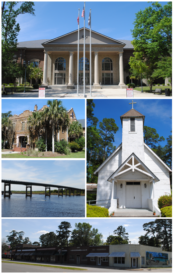 Photos I took around Woodbine, Georgia